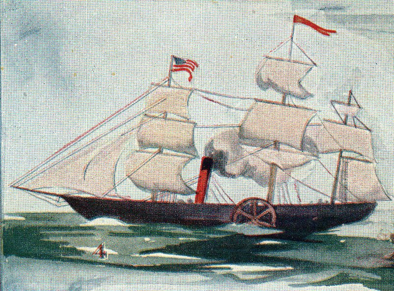 SS Savannah